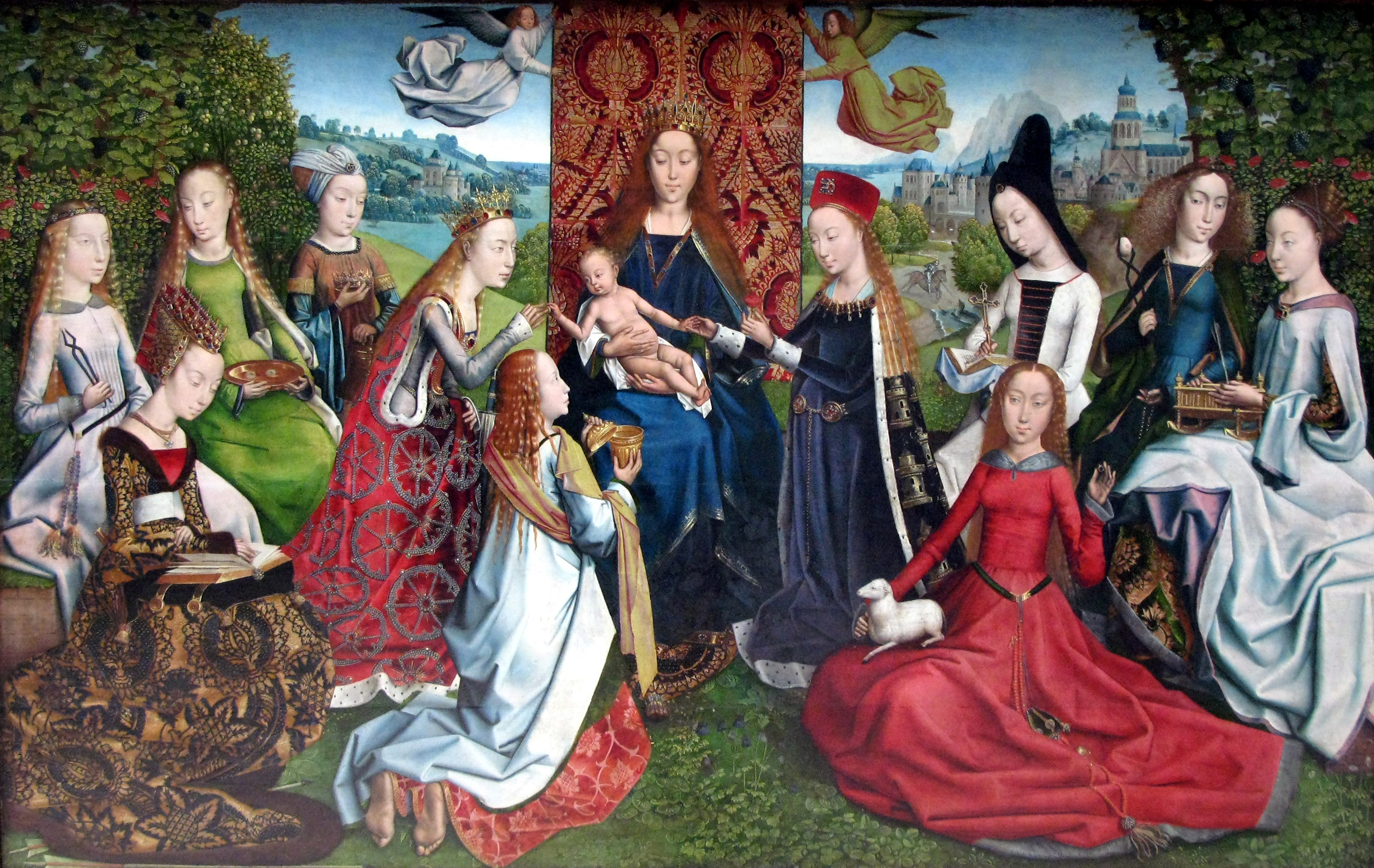 The Holy Virgin surrounded by other virgin saints, from left to right, with their attributes highlighted: (leftmost) Apollina, in white, holds a tooth with a pair of pincers. (front) Ursula, in a black-and-gold robe, reads a book. An arrow is under her skirt, and another arrow at the bottom edge of the painting. (rear) Lucy, in green, holds a golden plate containing two eyeballs. (rearmost) Dorothy(?)[1] holds a crown in one hand and a bell in another. Catherine, crowned, has a ring put on her finger by the baby Jesus (in a mystic marriage) and wears a red mantle full of breaking wheels. Mary Magdalene, kneeling, wears white and holds a golden pot of ointment. Mary and the Child in the centre. Barbara holds the other hand of Jesus. There are towers on her black mantle. Agnes, in red, sitting on the ground, holds a lamb on her lap. She holds in the other hand a ring, also a symbol of the mystic marriage. Margaret, in a black hat, holds a cross and a book. (In the background) A dragon being slain by George. In Margaret's story, a dragon tried to eat her. Agatha's pincers hold up a breast. (rightmost) Cunera, in white, has a miniature cradle on her lap and holds an arrow.